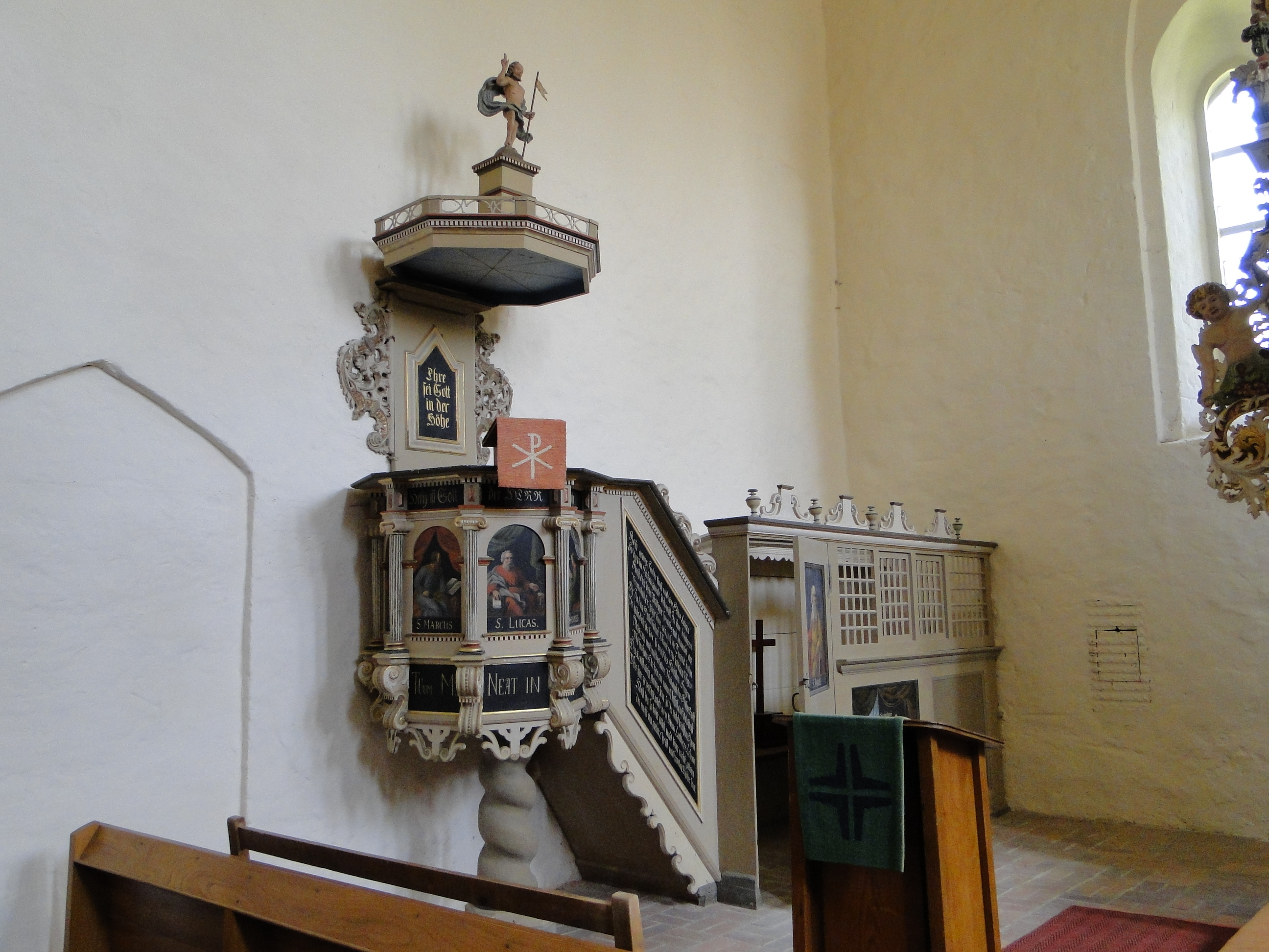 Church in Helpt, district Mecklenburg-Strelitz, Mecklenburg-Vorpommern, Germany